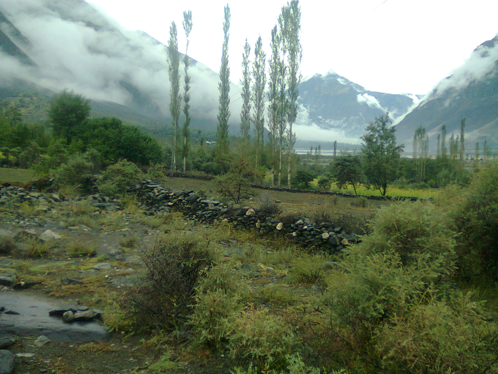 BarJungle Teh. Ishkoman, Distt. Ghizer, Gilgit-Baltistan